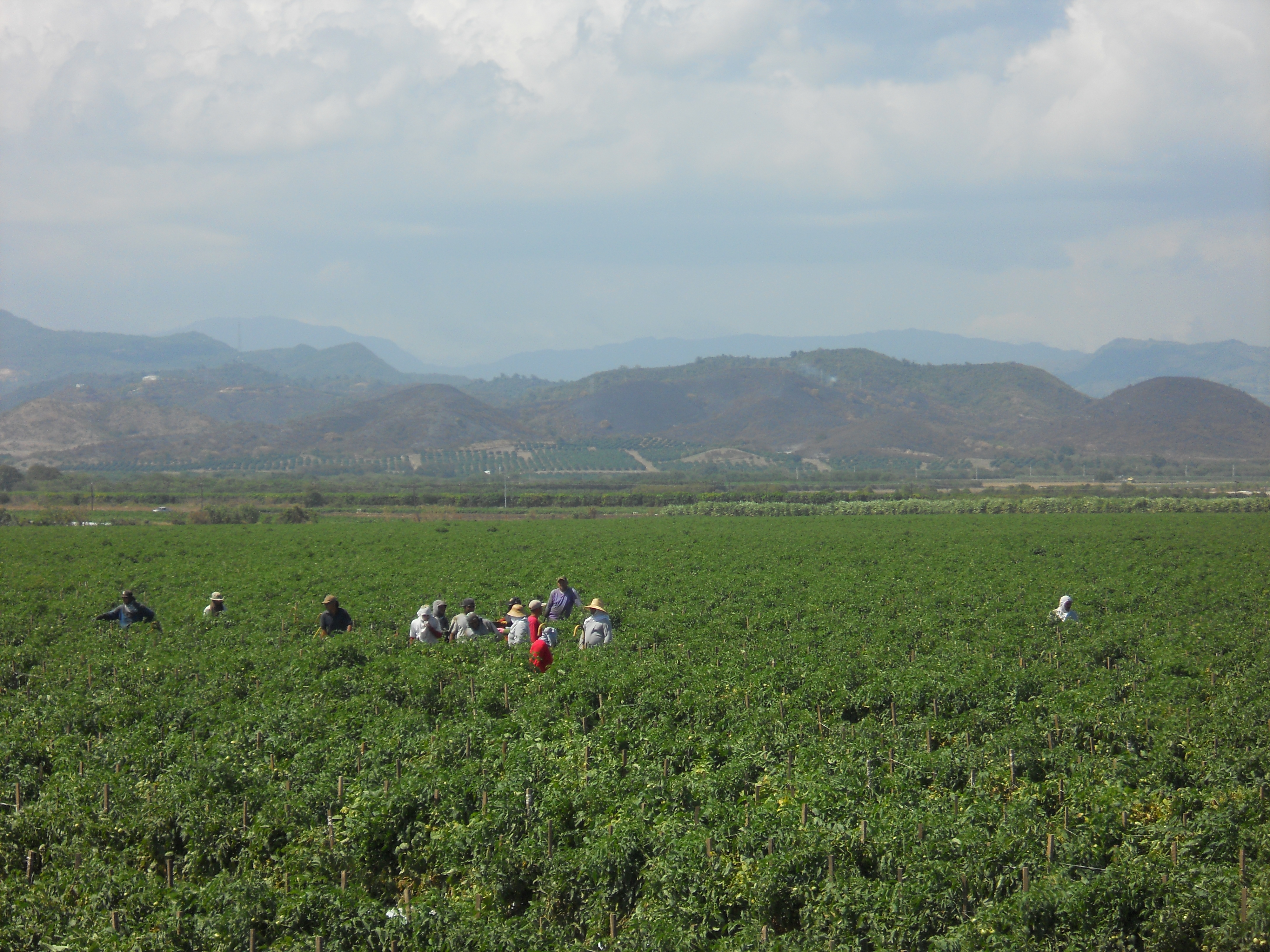 Tomatoes pickup, Salinas, PR